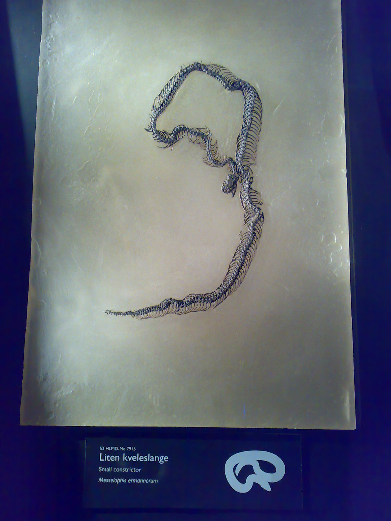 Messel Germany, ancient constrictor (Messelophis ermannorum), Oslo Zoological Museum